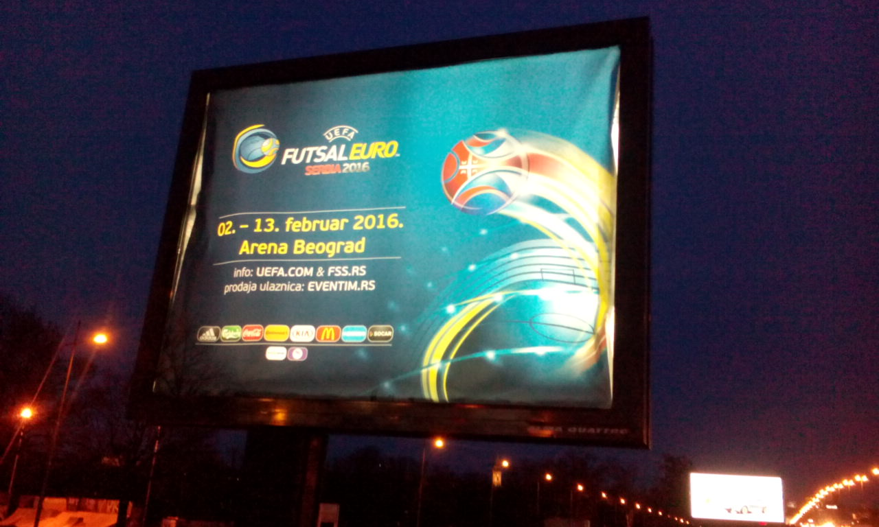 UEFA Futsal EURO 2016 Promo Billboard, pictured in Belgrade.